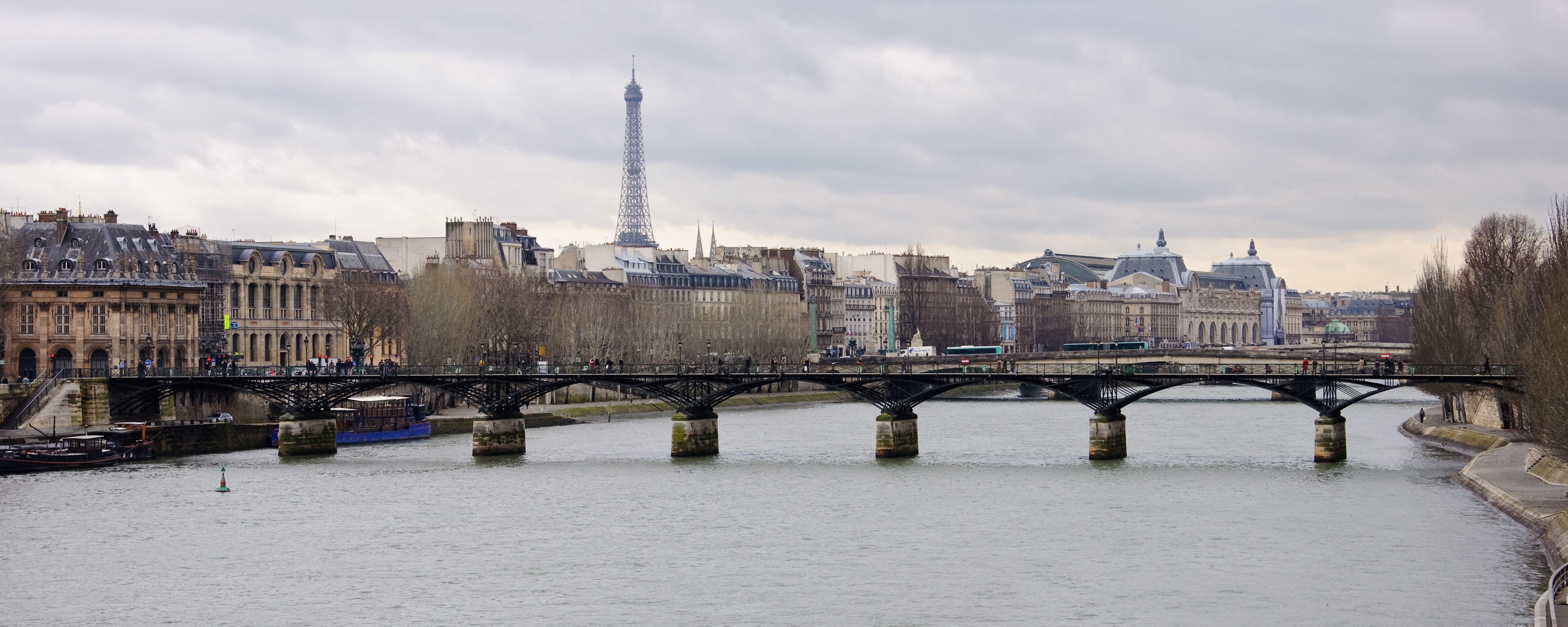 The Pont des Arts seen from the Pont Neuf in Paris, France.